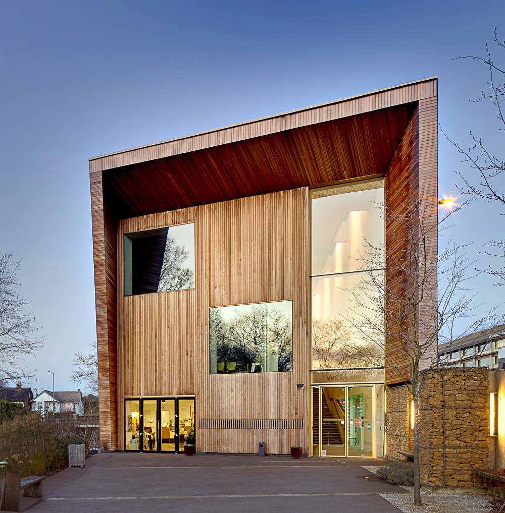 The Lightbox (c) Ian Rudgewick Brown